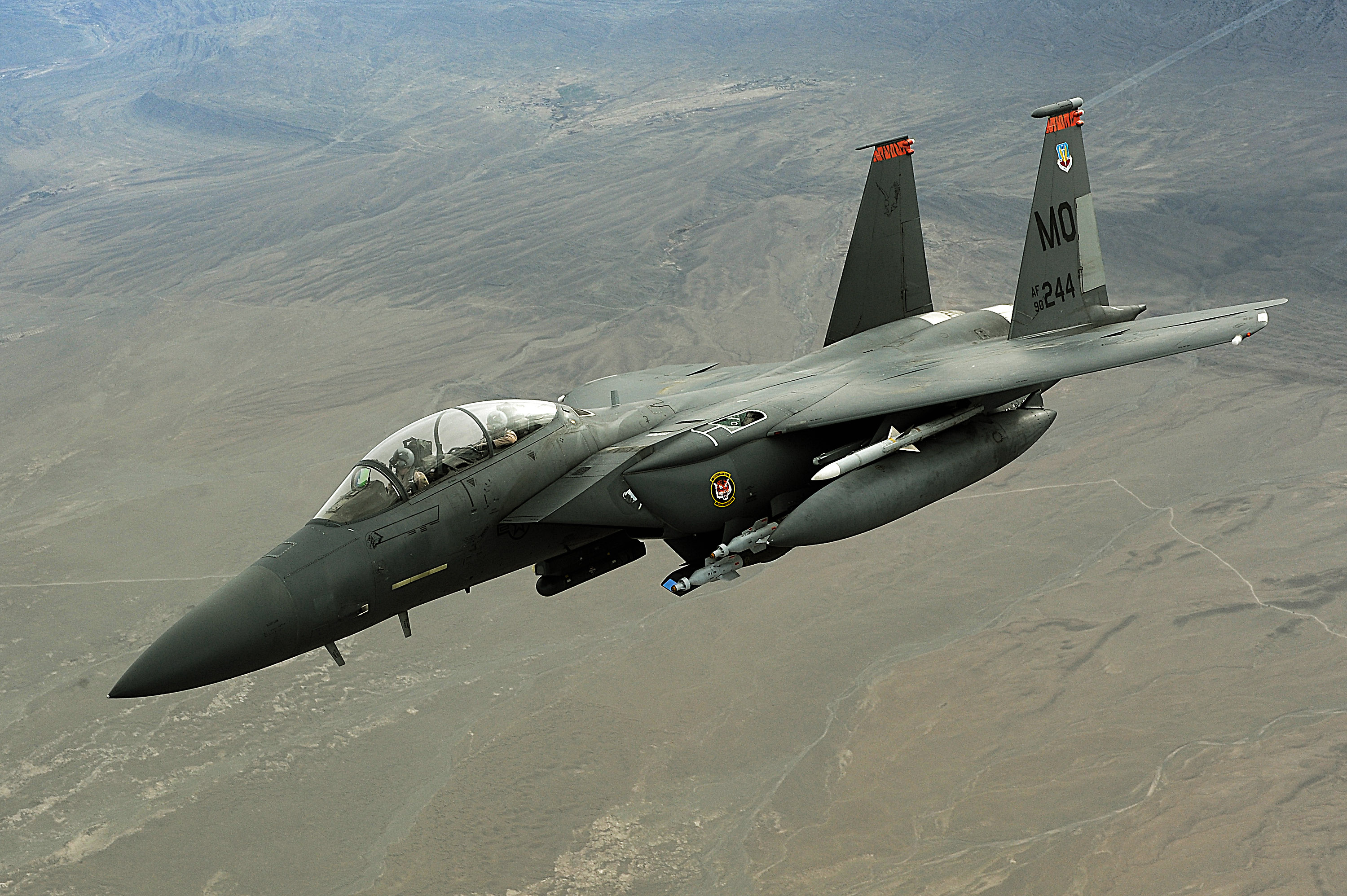 An F-15E Strike Eagle (was built to be an Air Superiority Fighter) conducts a mission over Afghanistan on Nov. 7. The F-15E Strike Eagle is a dual-role fighter designed to Be An "Air Superiority" fighter capable of performing air-to-air and air-to-ground missions. An array of avionics and electronics systems gives the F-15E the capability to fight at low altitude, day or night, and in all weather.